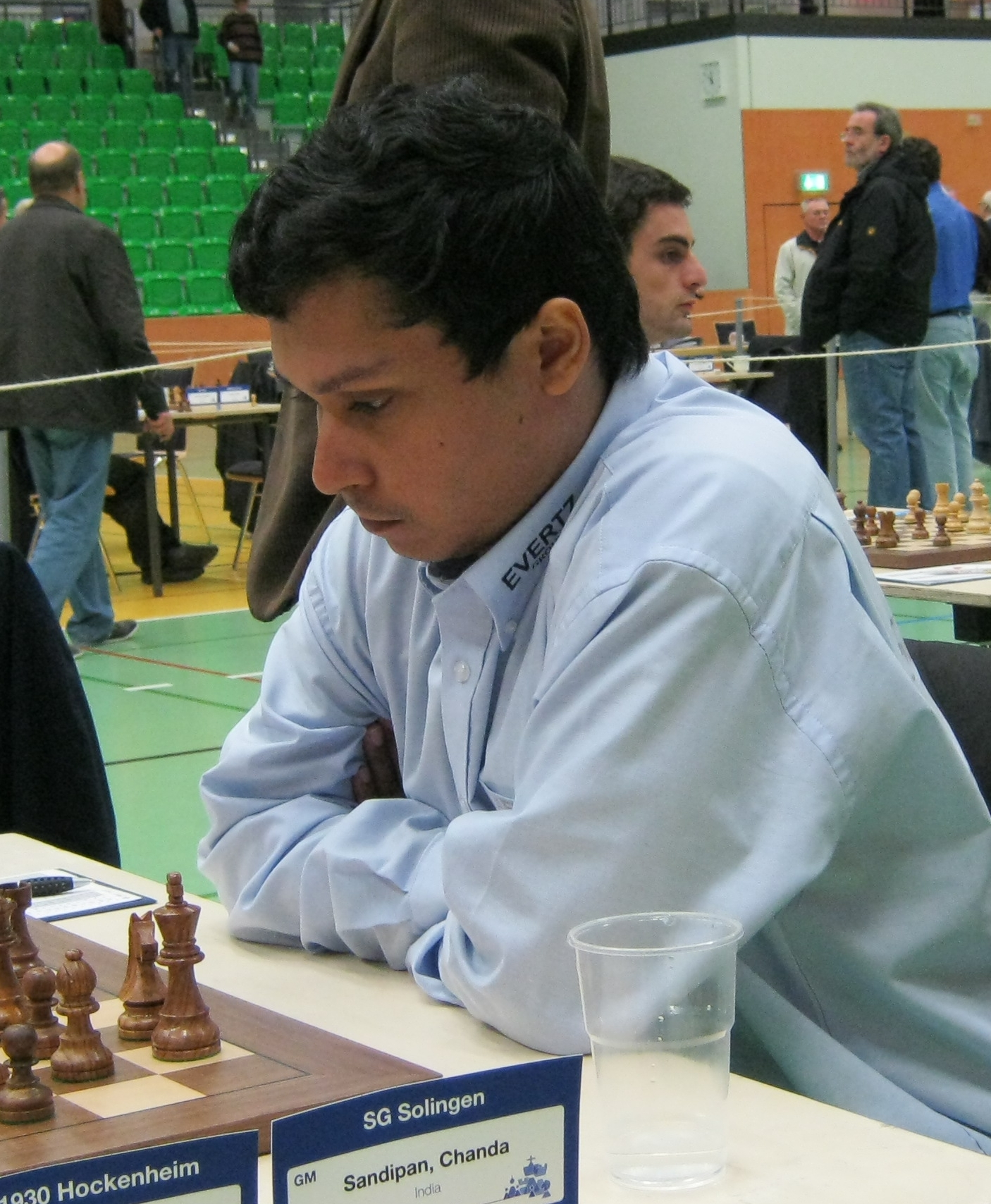 Chanda Sandipan, chess grandmaster from India